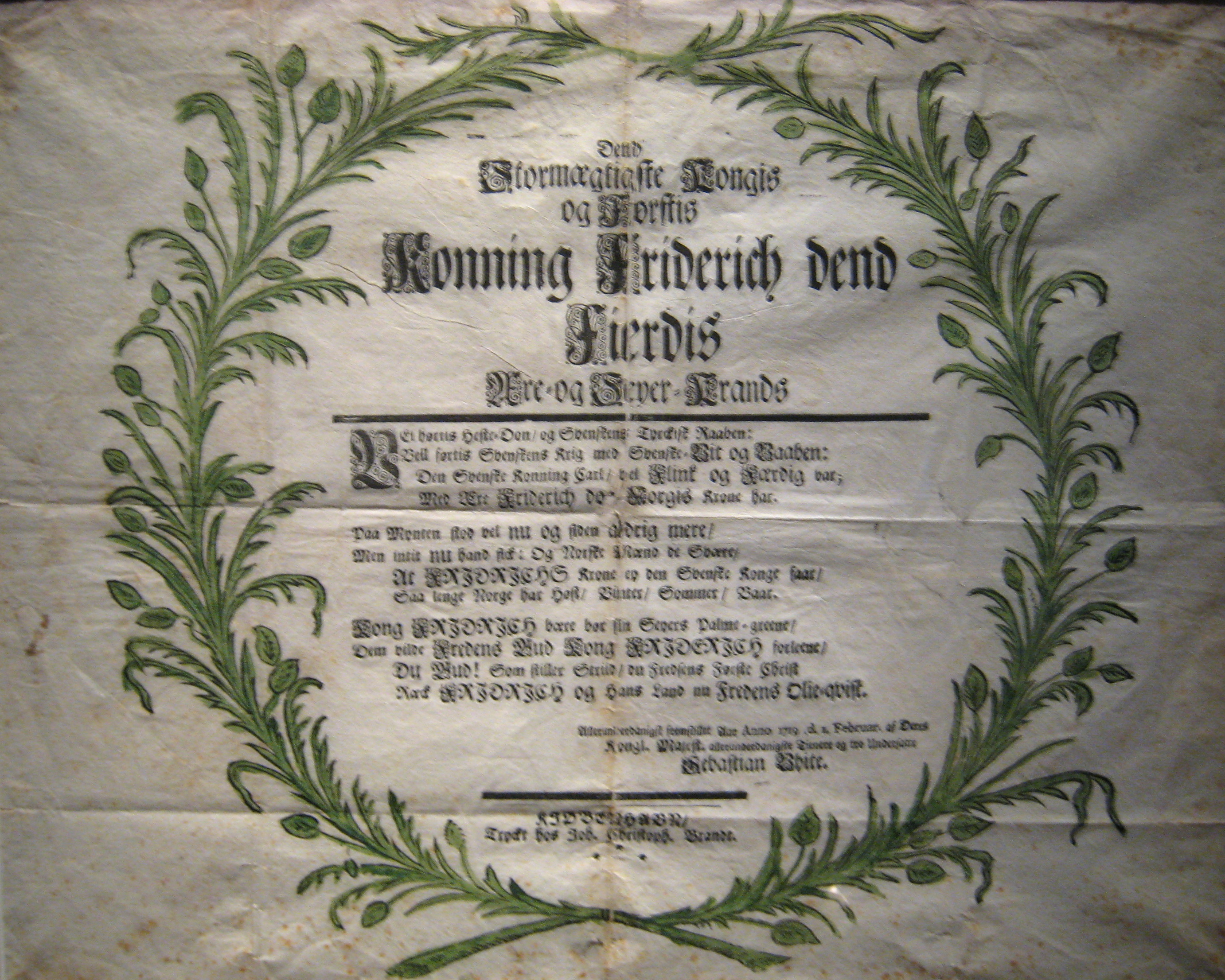 Eulogy for king Frederik IV. of Denmark, 1719: "As long as there are four seasons in Norway, it shall be kept from the king of Sweden"